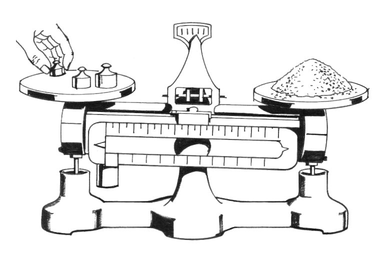 Line art drawing of a balance.